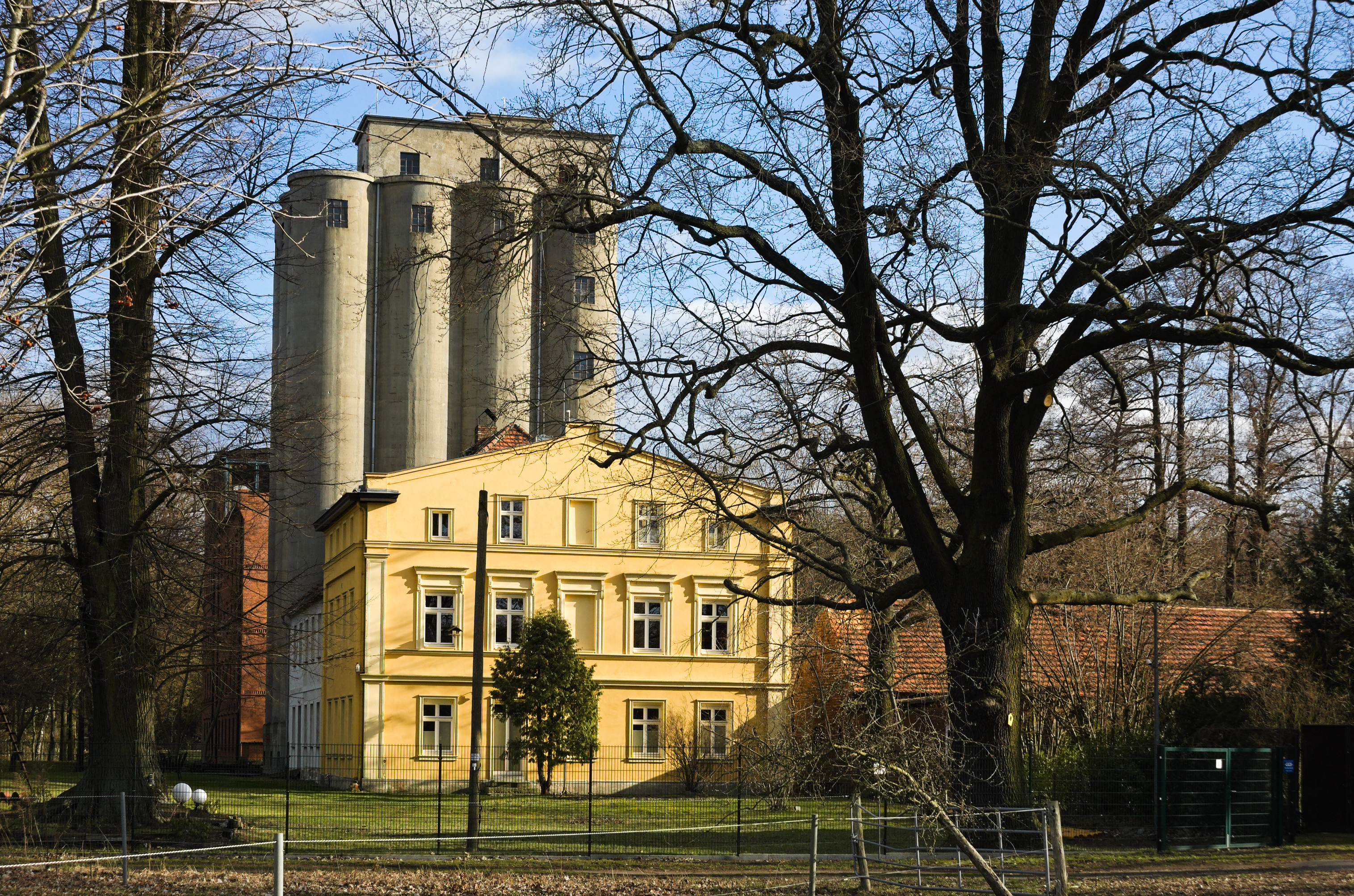 Grain silo and auxiliary buildings of Große Mühle Madlow, postal address Große Mühle 1. This view is from Große Mühle.